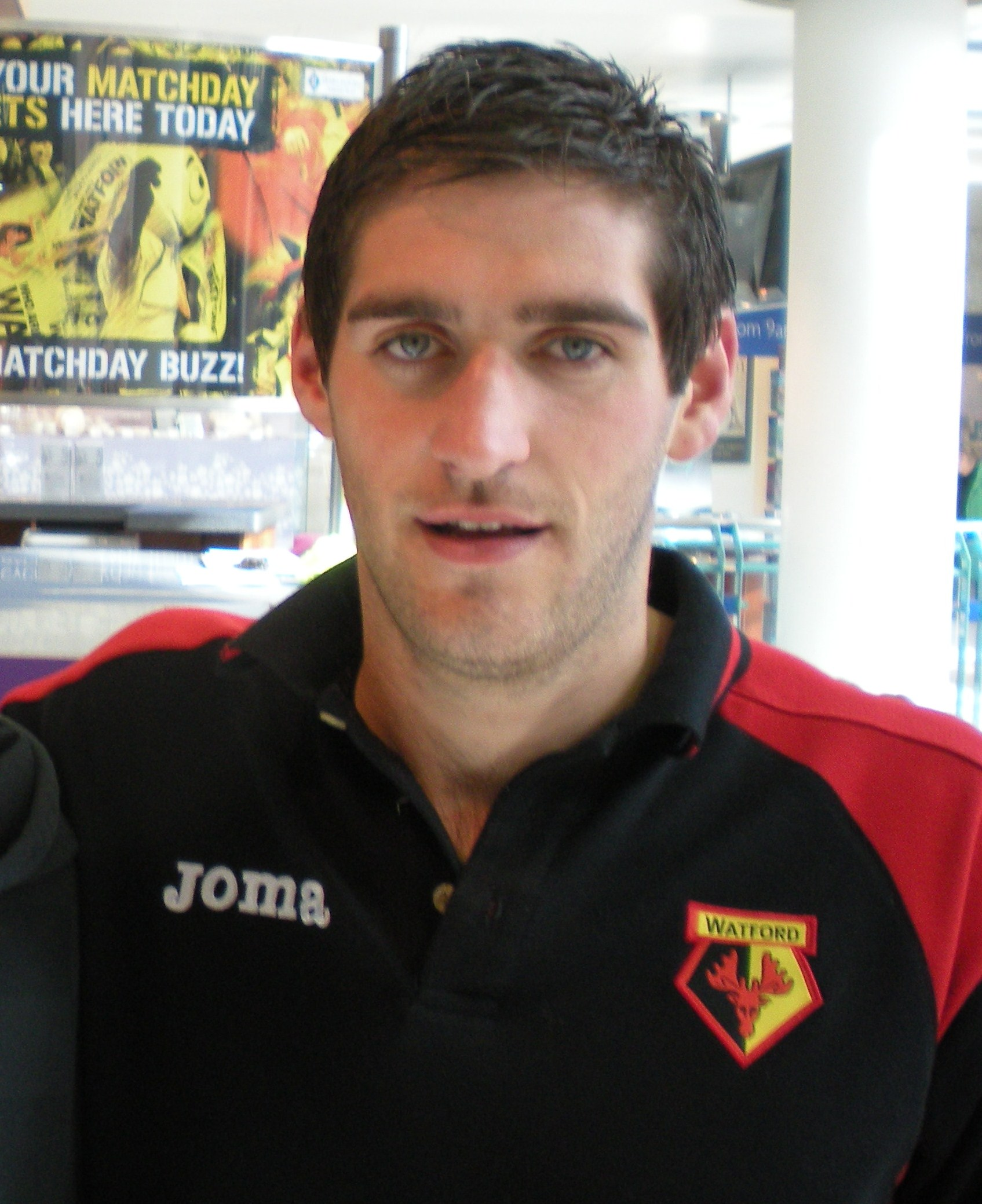 Picture of Danny Graham at the Harlequin Shopping Centre in Watford